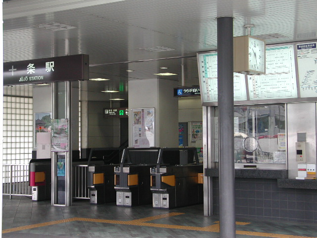 This photo is the Jujo station ,Kinki-Nippon Rail Road (KINTETSU), Kyoto City, Kyoto Pref.